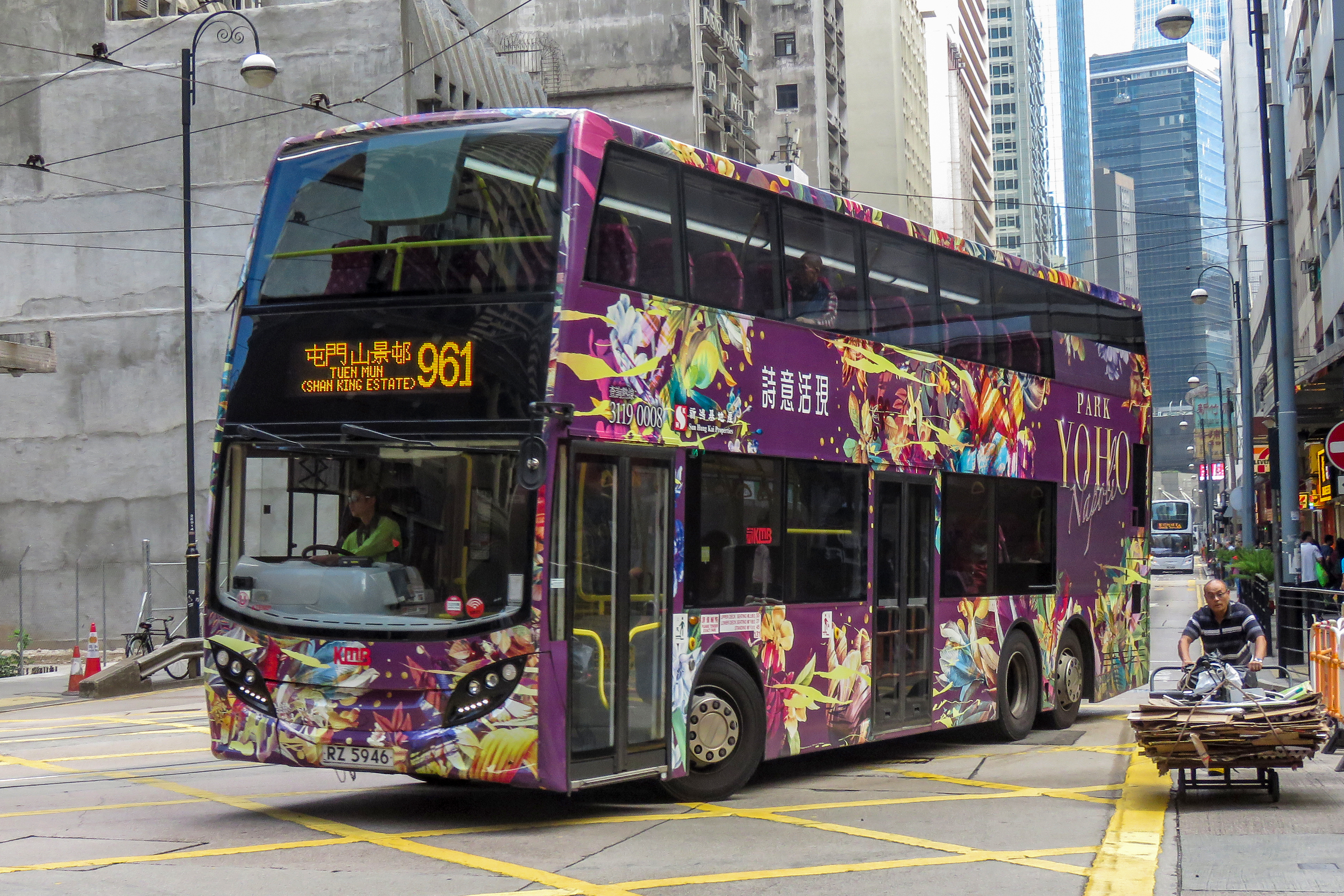 The Western Market Terminus is also a nice place for bus spotting.